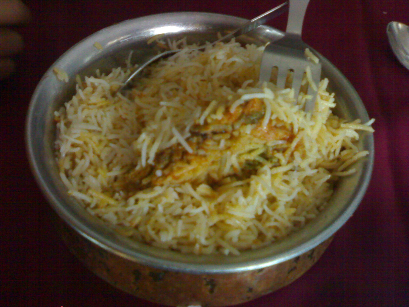 This is a picture of chicken biryani of Hyderabad.